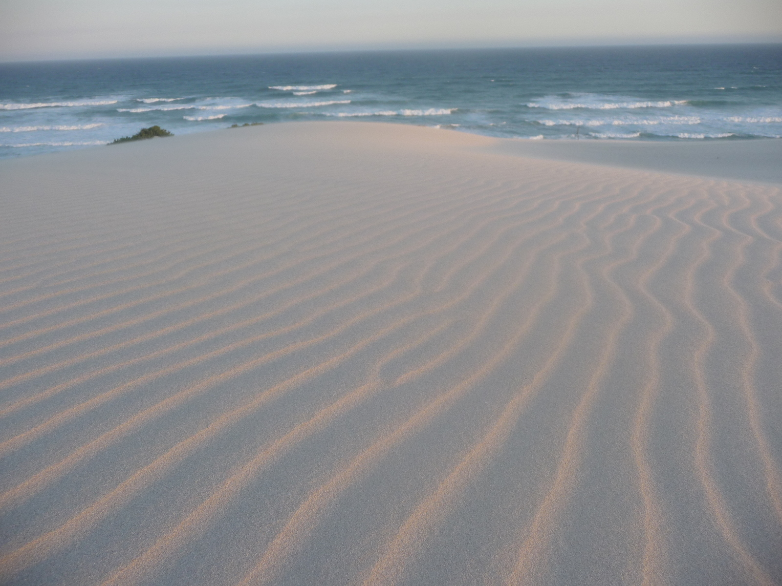 South African sand dune with ripple pattern created by either wind or water, with ocean in the background.